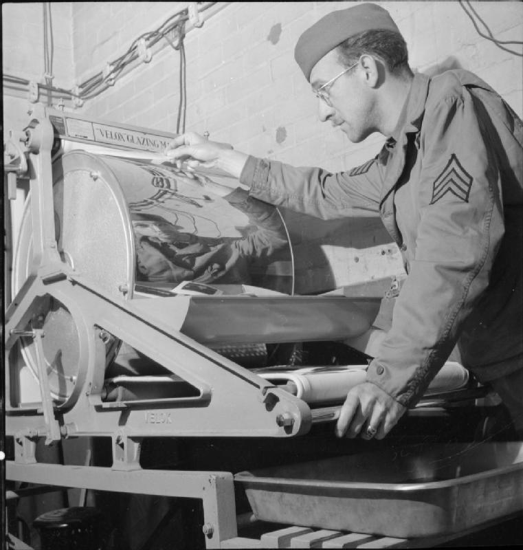 British Equipment at An American Airfield- Anglo-american Co-operation in Wartime Britain, 1943 In the photographic section of this American airfield somewhere in Britain, Sergeant Richard Remmy from Marietta, Ohio removes some prints from a British glazing machine.